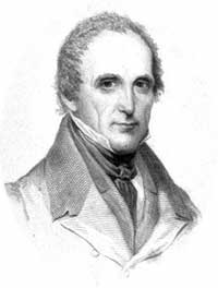 Richard Rush en:1810 engraving by Joseph Ives Pease